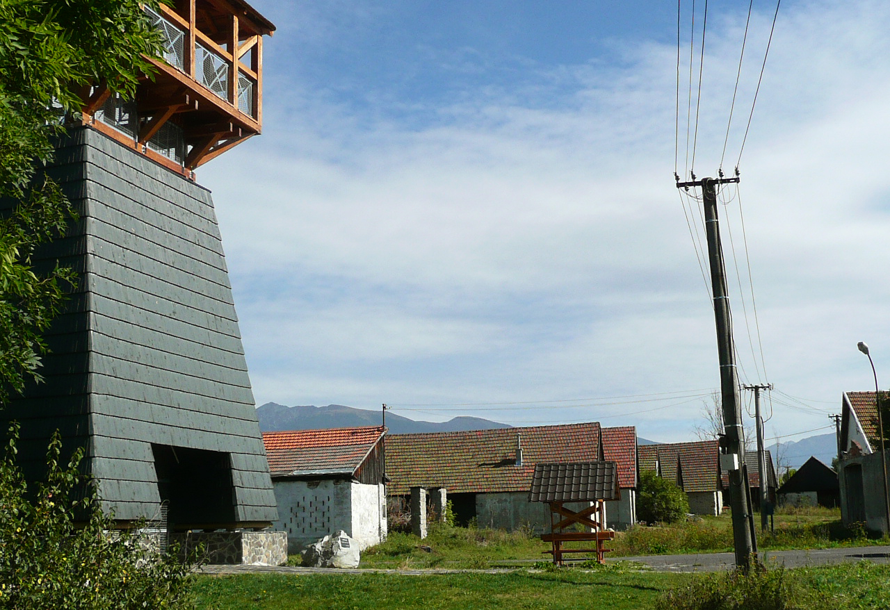 Museum tower in the village of Vavrišovo, Žilina region